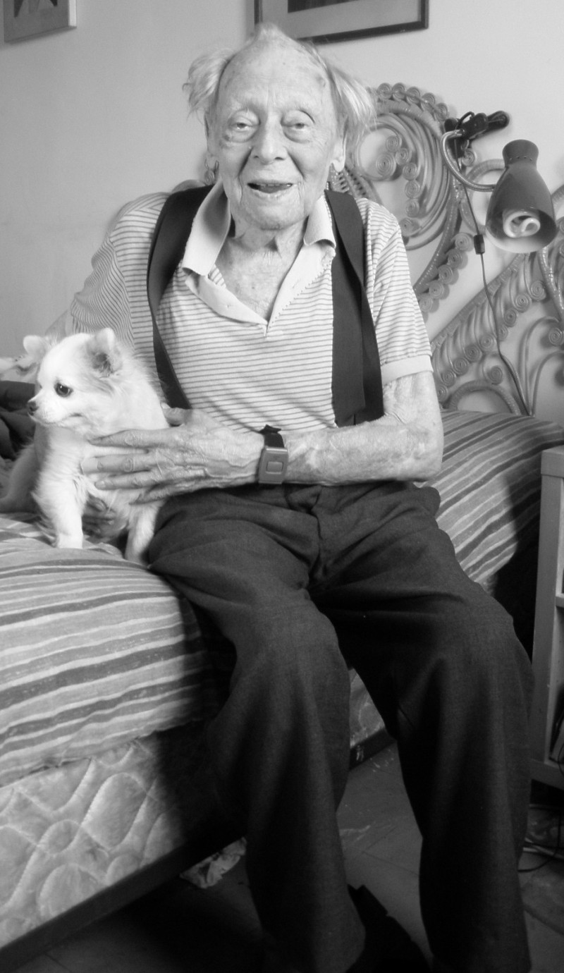 Photo of Jiří (George) Kárnet (1920), New York City, 2009.